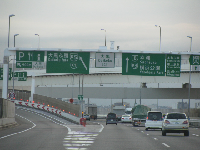 Daikoku Junction on the Metropolitan Expressway Bayshore Route wetbound line